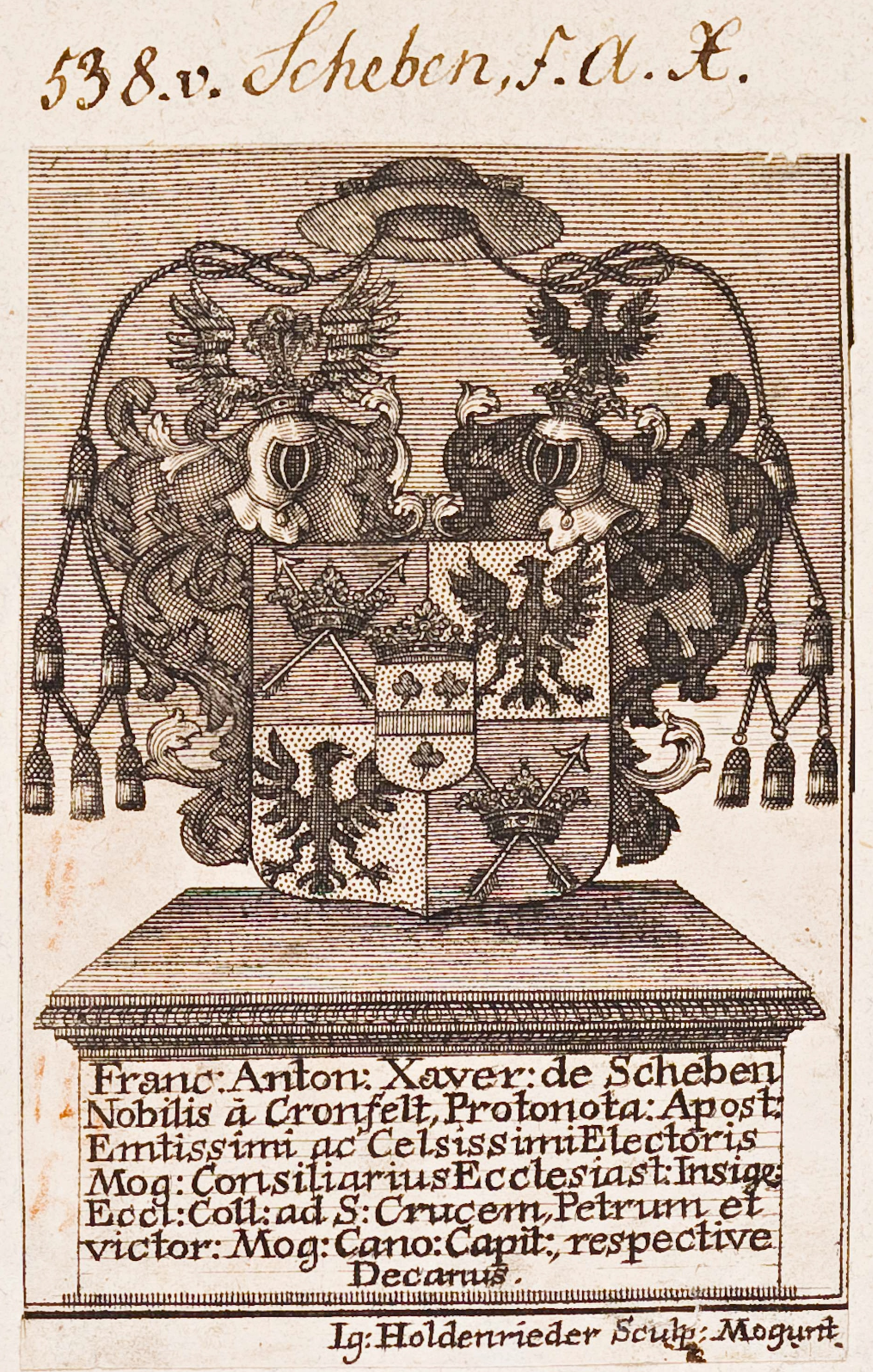 Wappen von Franz Xaver Anton von Scheben (1711-1779) Weihbischof von Worms